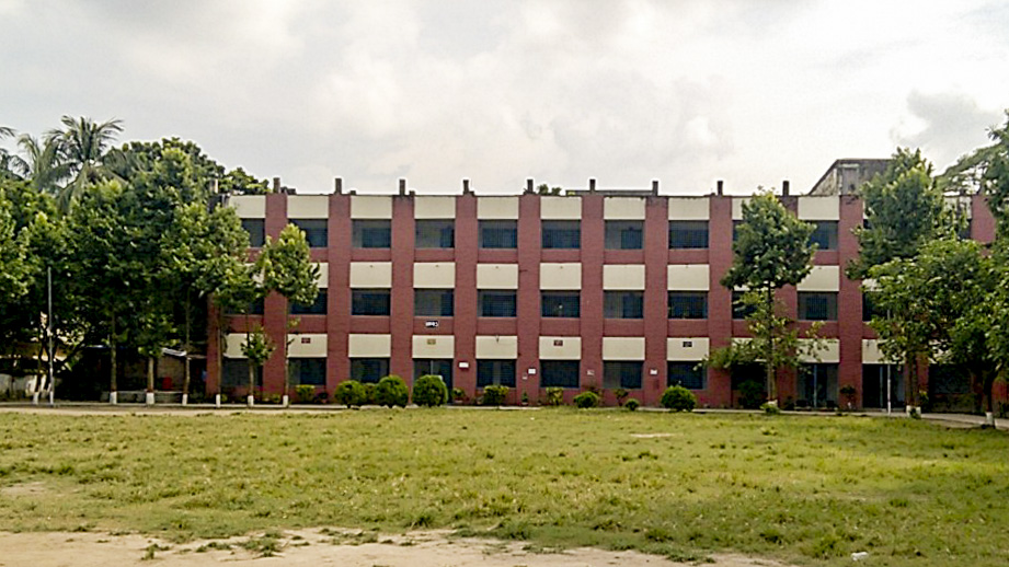 Rajshahi Collegiate School is a school and college in Boalia Thana in the center of Rajshahi, a city in northern Bangladesh. Established in 1828, it is the first modern school of Bengal and one of the oldest schools of the Indian Subcontinent.